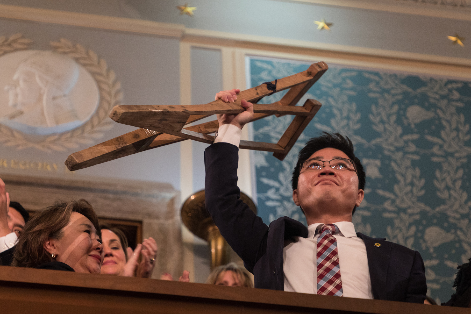 State of the Union 2018 (Official White House Photo by D. Myles Cullen)